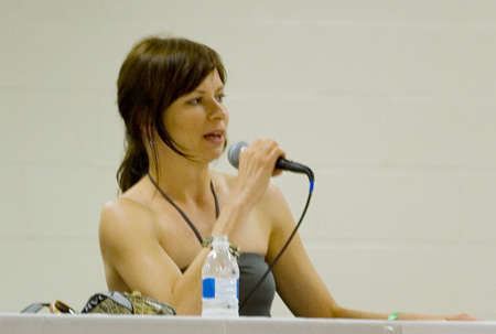 Author: David Cooper Location: Saugatuck, MI Event: 2007 Waterfront Film Festival Source: URL: Photo Date Taken: 6/8/2007